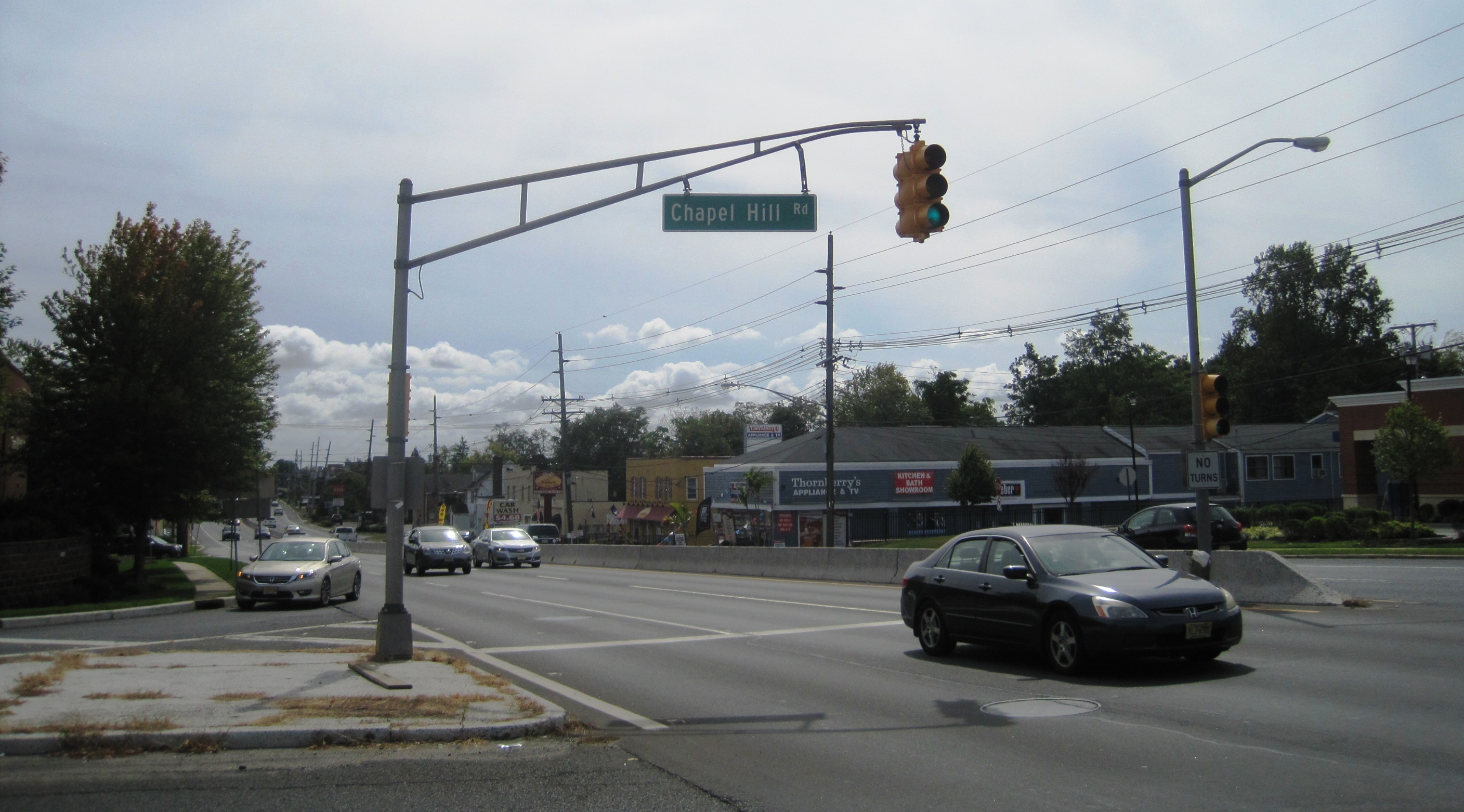 Photo of Fairview, New Jersey, a census designated place within Middletown Township. Photo taken at Chapel Hill Road at its intersection with New Jersey Route 35 looking south.